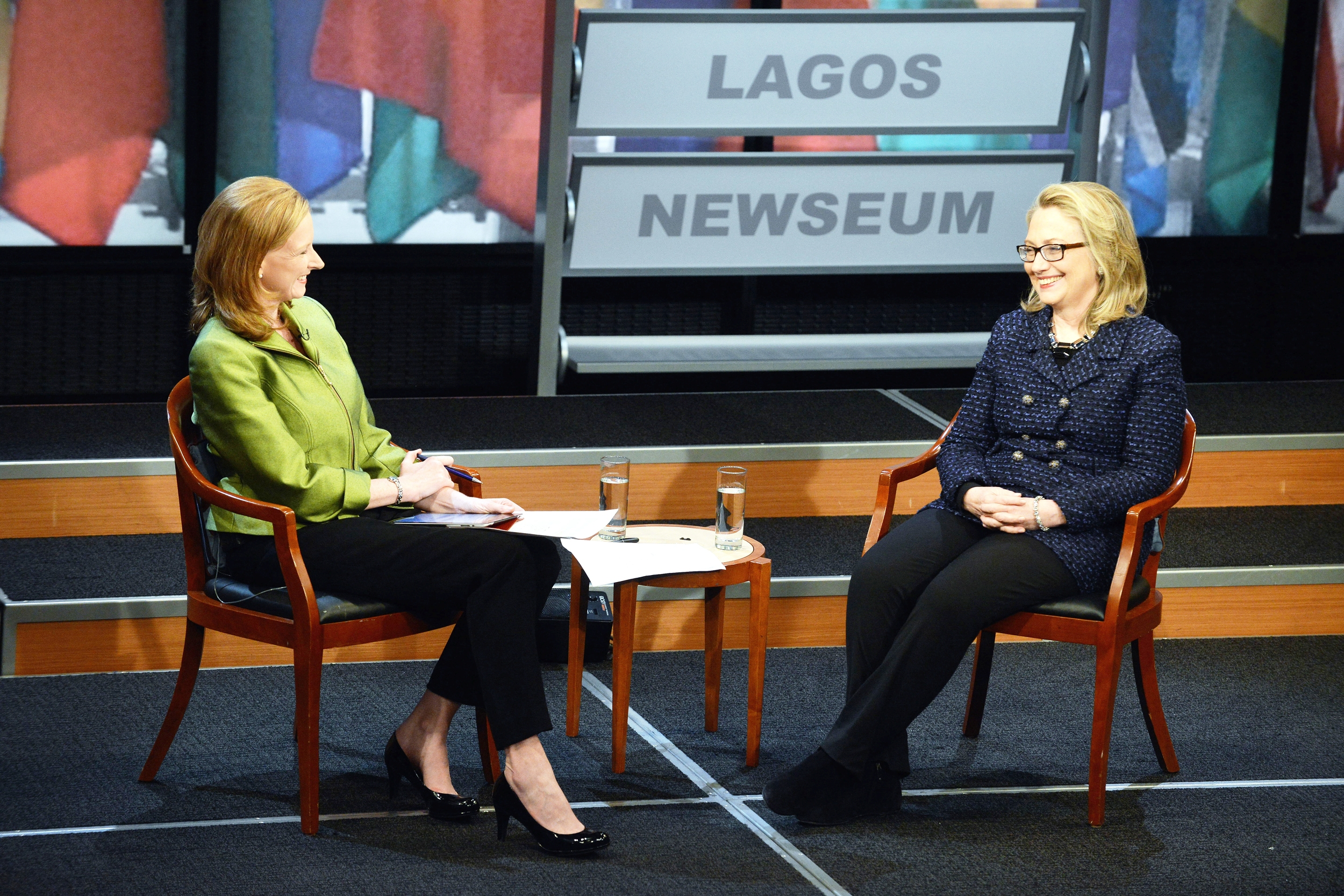 U.S. Secretary of State Hillary Rodham Clinton participates in a Global Town Hall, moderated by Leigh Sales of the Australian Broadcasting Corporation, at the Newseum in Washington, D.C., on January 29, 2013. [State Department photo/ Public Domain]